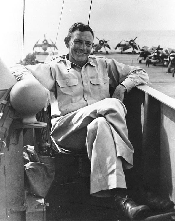 Rear Admiral Calvin T. Durgin, USN on the bridge of his flagship, USS Makin Island (CVE-93), circa 1944-1945.